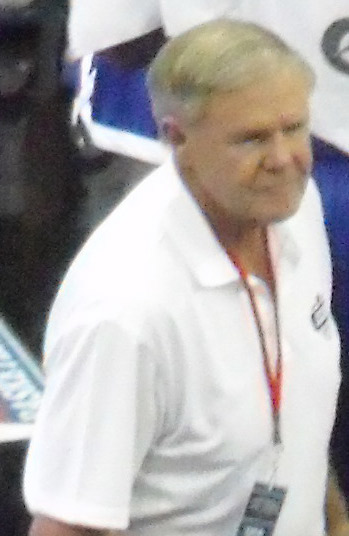 Former UCLA and Louisville men's basketball coach Denny Crum coaches an exhibition game against the Dominican Republic National Team at the Yum! Center in Louisville, Kentucky.